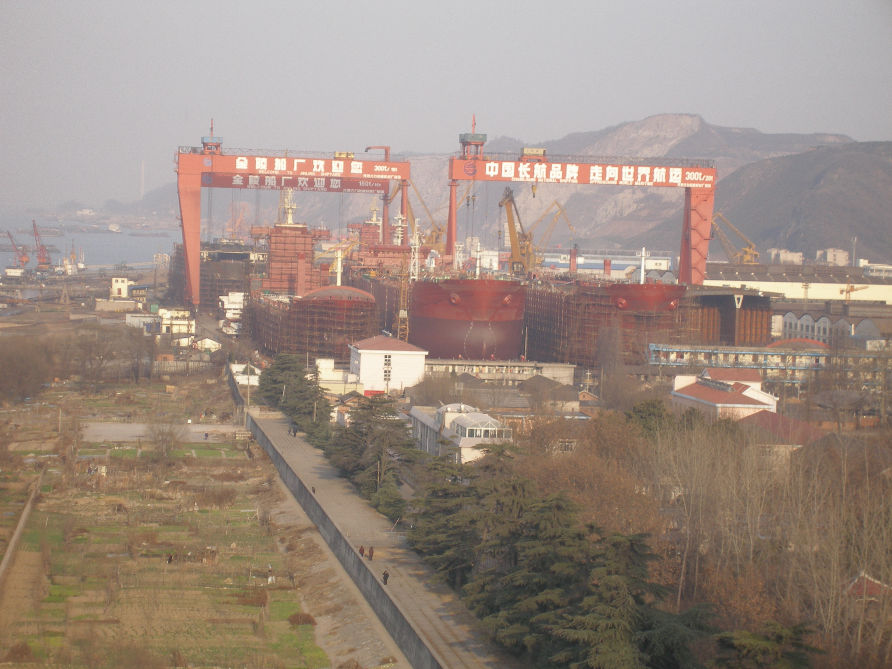 Ship building in Nanjing